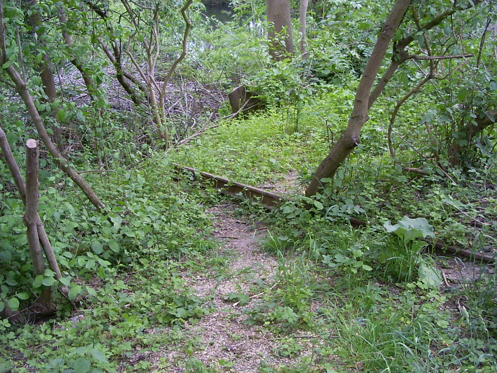 Remains of the former railway line Elten-Griethausen, in the nature resereve Die Moiedtjes to the south of Elten